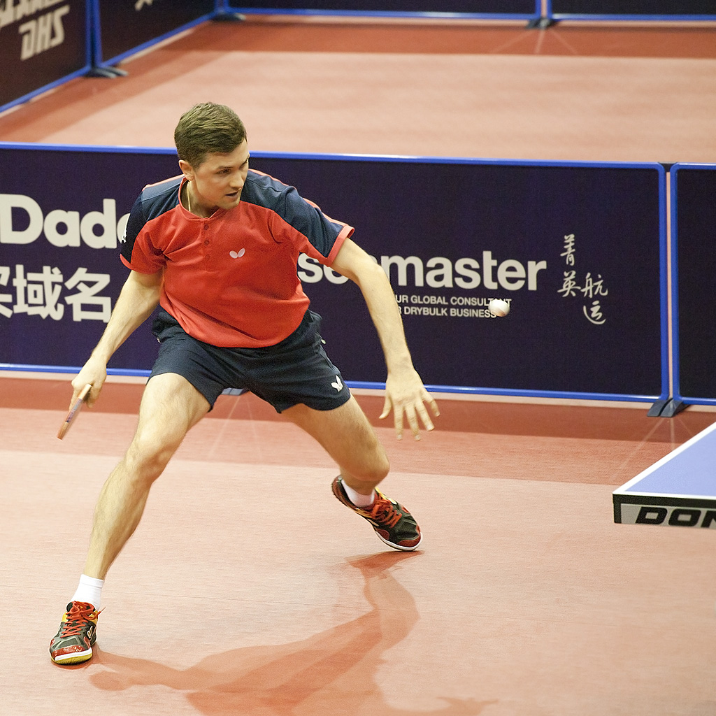 ITTF World Tour 2017 German Open, Magdeburg, Germany, 7 Nov 2017 - 12 Nov 2017, Liventsov Alexey